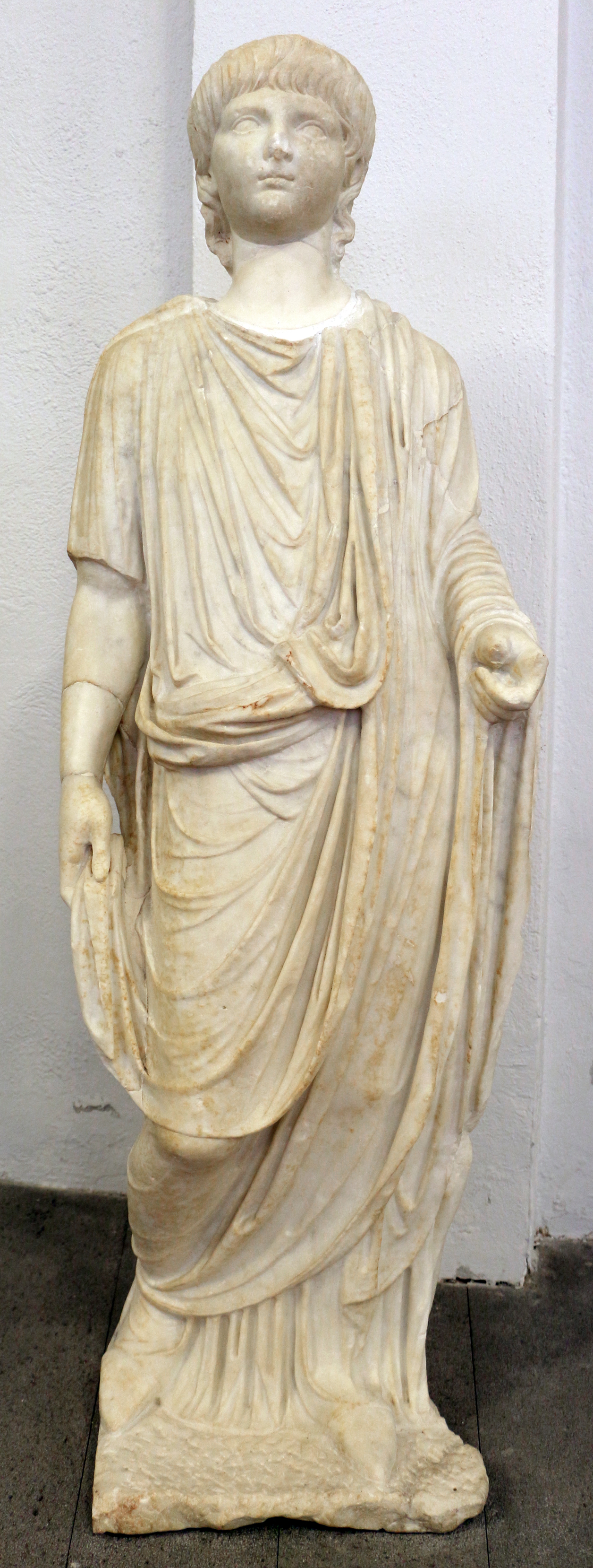 Ancient Roman statues in the Museo archeologico e d'arte della Maremma